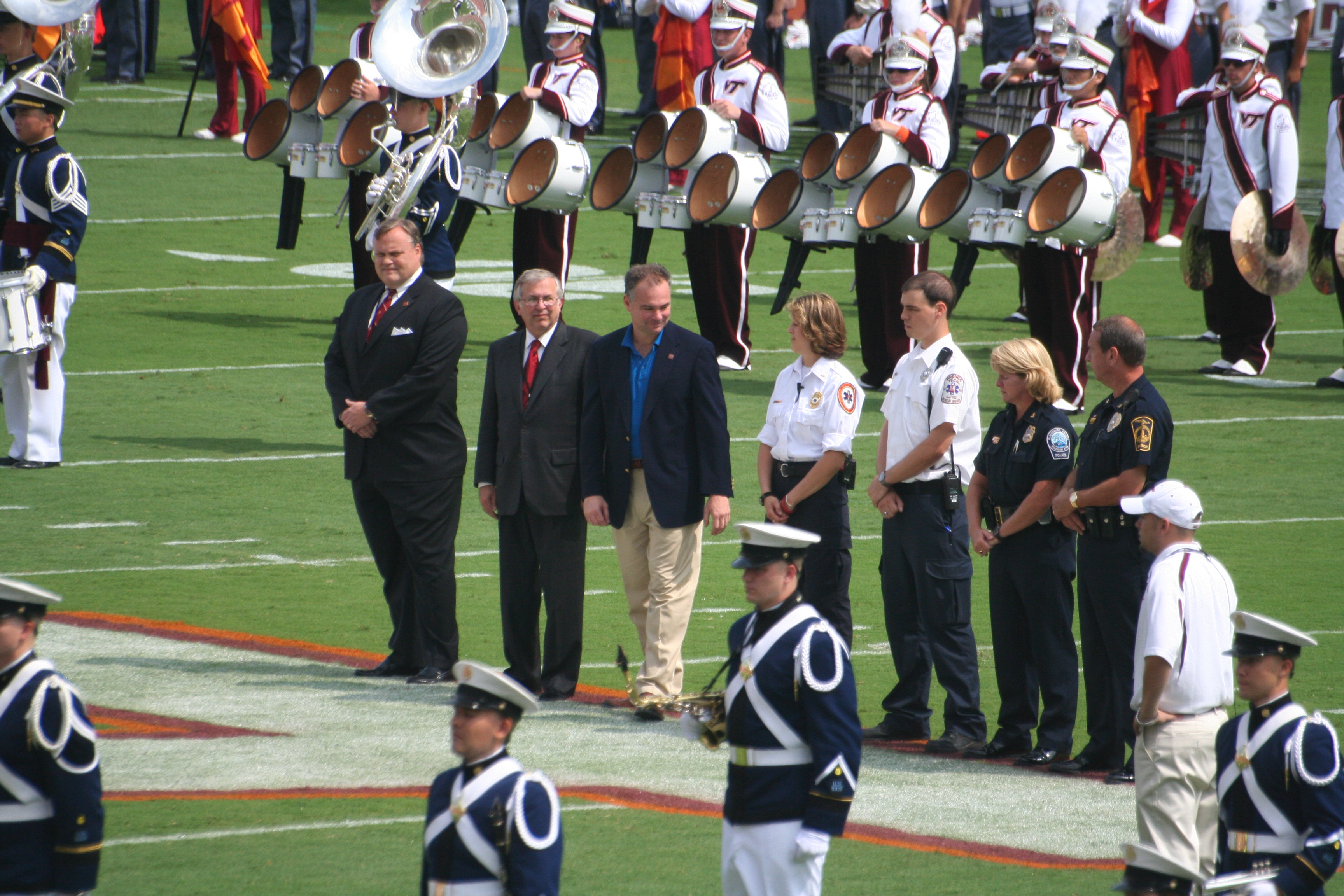 Virginia Governor Tim Kaine thanks the first responders for their work responding to the Virginia Tech massacre at the 2007 Virginia Tech Hokies football team's home opener against East Carolina University. Pictured, from left to right, are Virginia Tech Board of Visitors rector Jacob Lutz, Virginia Tech President Dr. Charles Steger (en), Virginia governor Tim Kaine (en), 2nd Lt Sarah Walker of the Blacksburg Rescue Squad [1], James Downing of the Virginia Tech Rescue Squad, Blacksburg Police Chief Kim Crannis, Virginia Tech Police (en) Chief Wendell Flinchum.